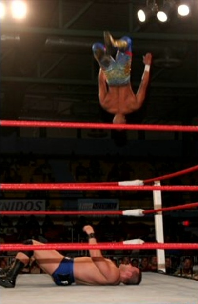 Hiram Tua performing the 360• Shooting Star press on Eric Pérez at the International Wrestling Association's Juicio Final 2011 event.